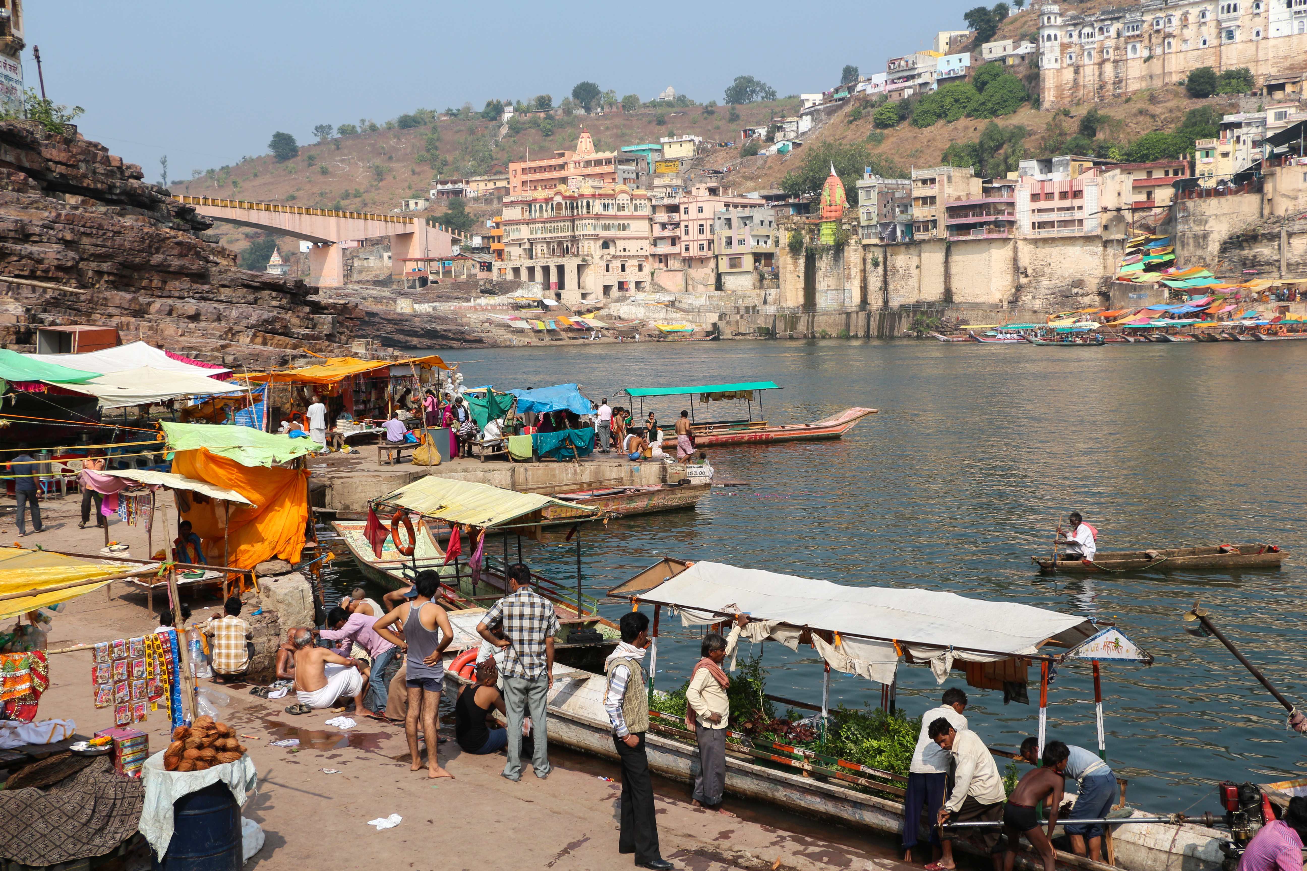 The Gomukh ghat in Omkareshwar, India